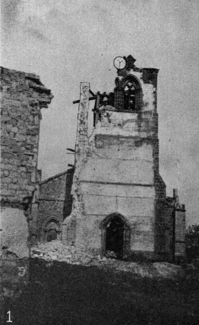 World War I in Reims-Verdon sector, France. Original caption: “The famous hanging clock in the ruined church at St. Hilare le Grand.”